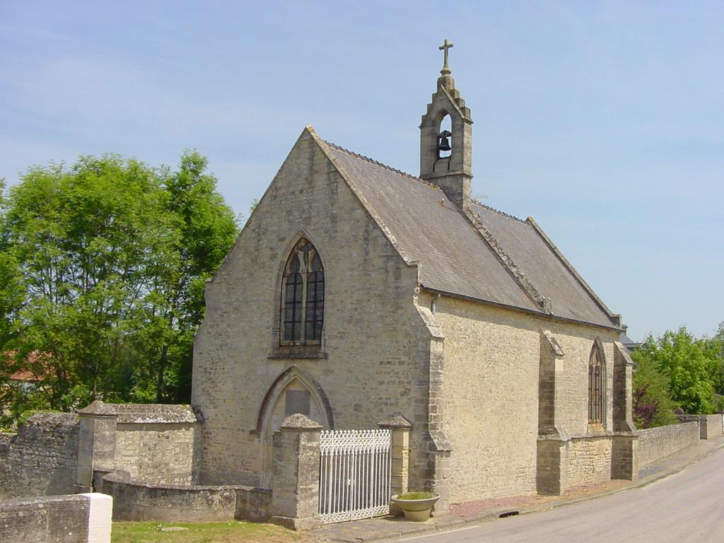 Picture of the Church in Formigny No rights reserved